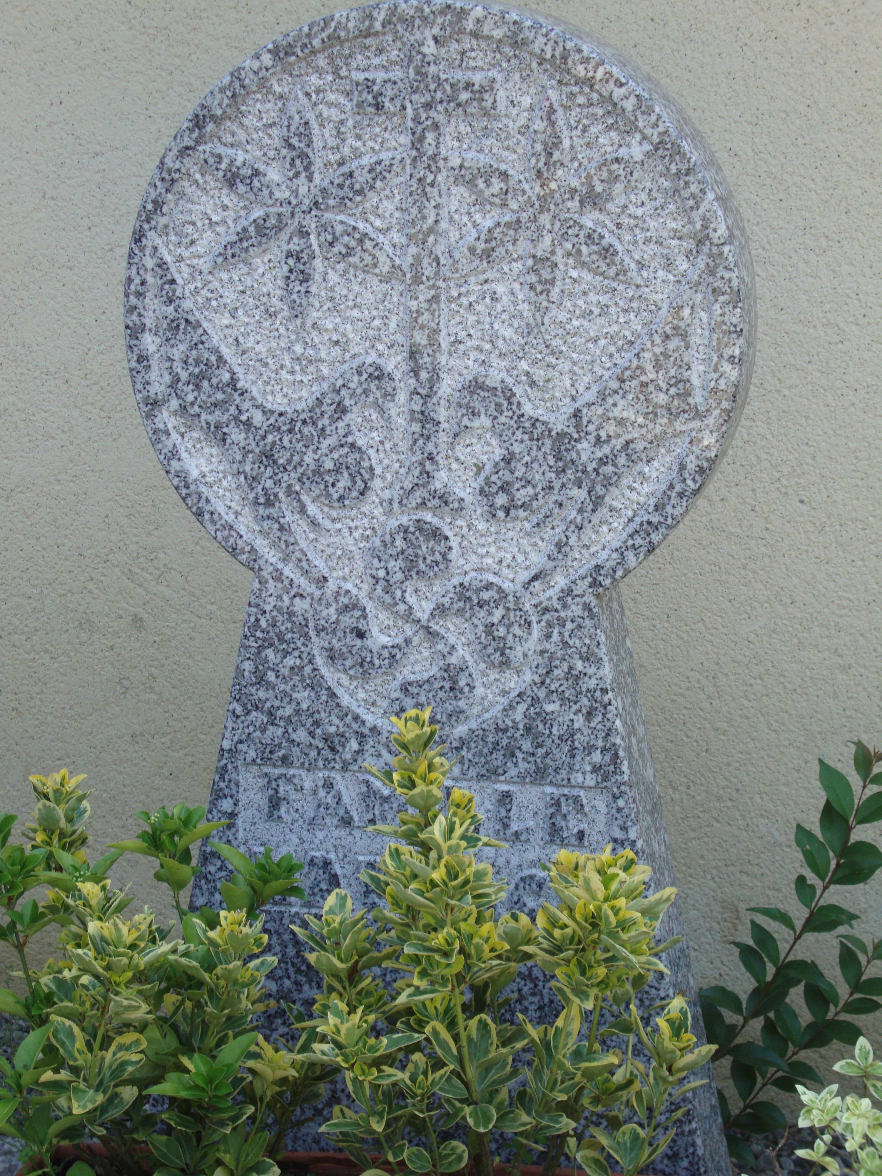 Montory (Pyr-Atl, Fr) discoidal stele.